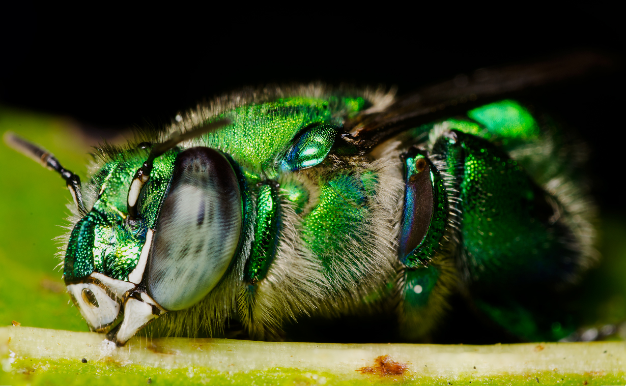 An orchid bee, Euglossa viridissima sleeping on a leaf. Miramar Florida